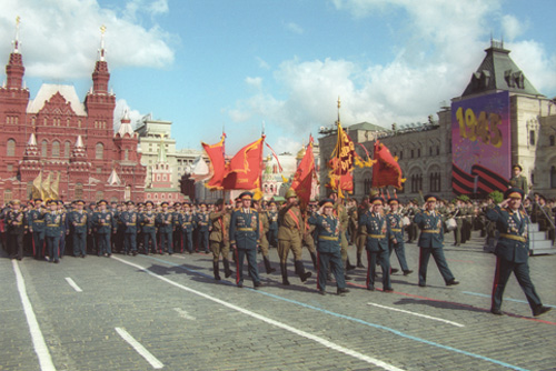 RED SQUARE, MOSCOW. Parade devoted to the 55th anniversary of the USSR's victory in the Great Patriotic War.